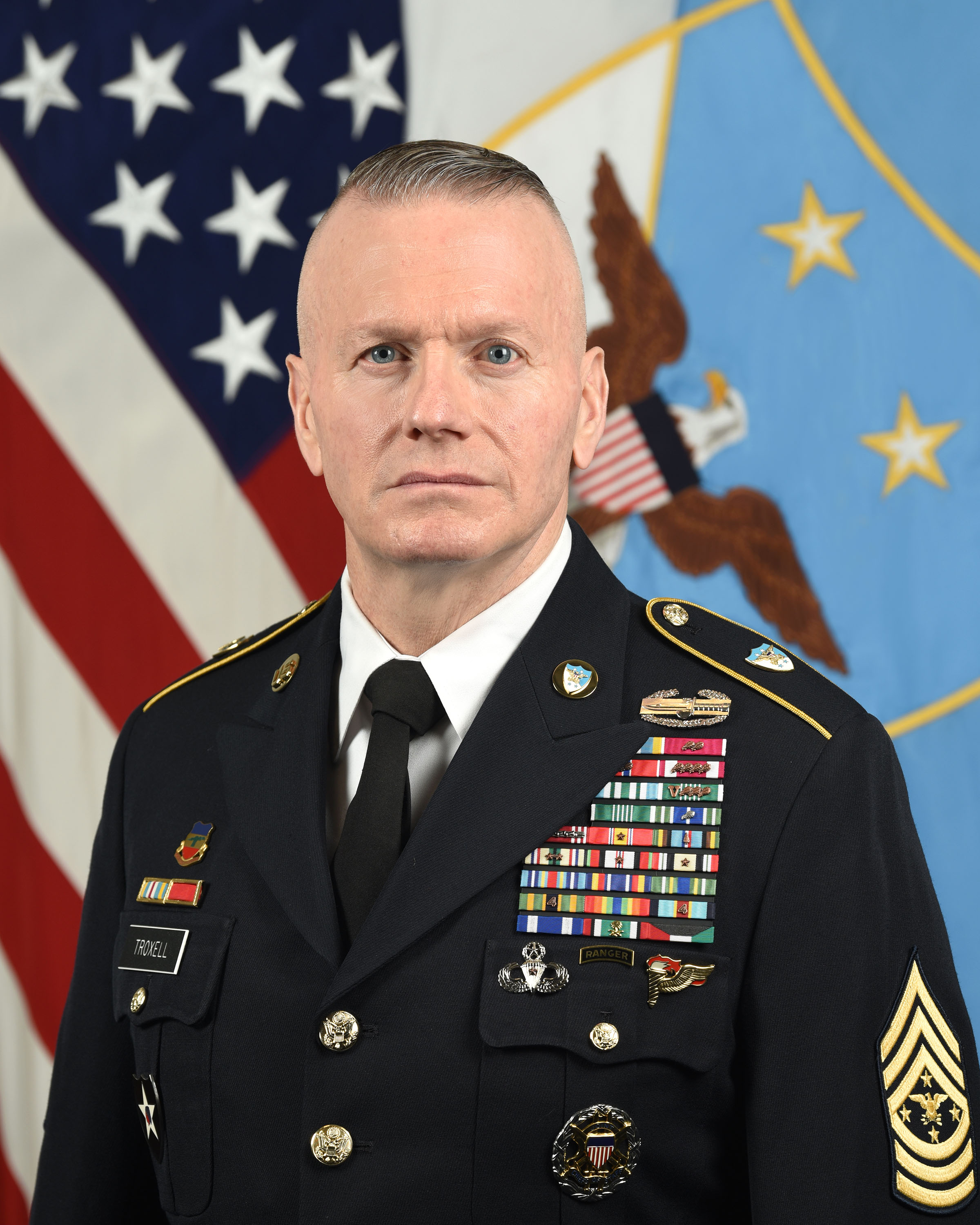 CSM John W. Troxell with new rank insignia representing the SEAC position